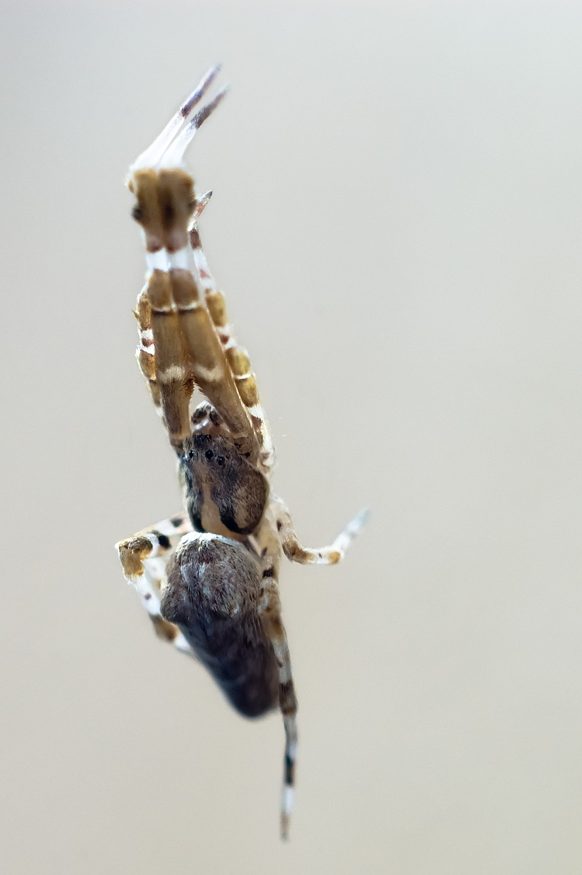 This is a shot of Uloborus walckenaerius, a spider of the family of Uloboridae. It's only about 2mm long.